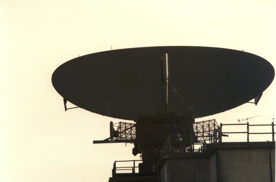 Radar Type 85, UK, cold war long range search radar part of Linesman system. Picture is of Aerial at RAF Staxton Wold